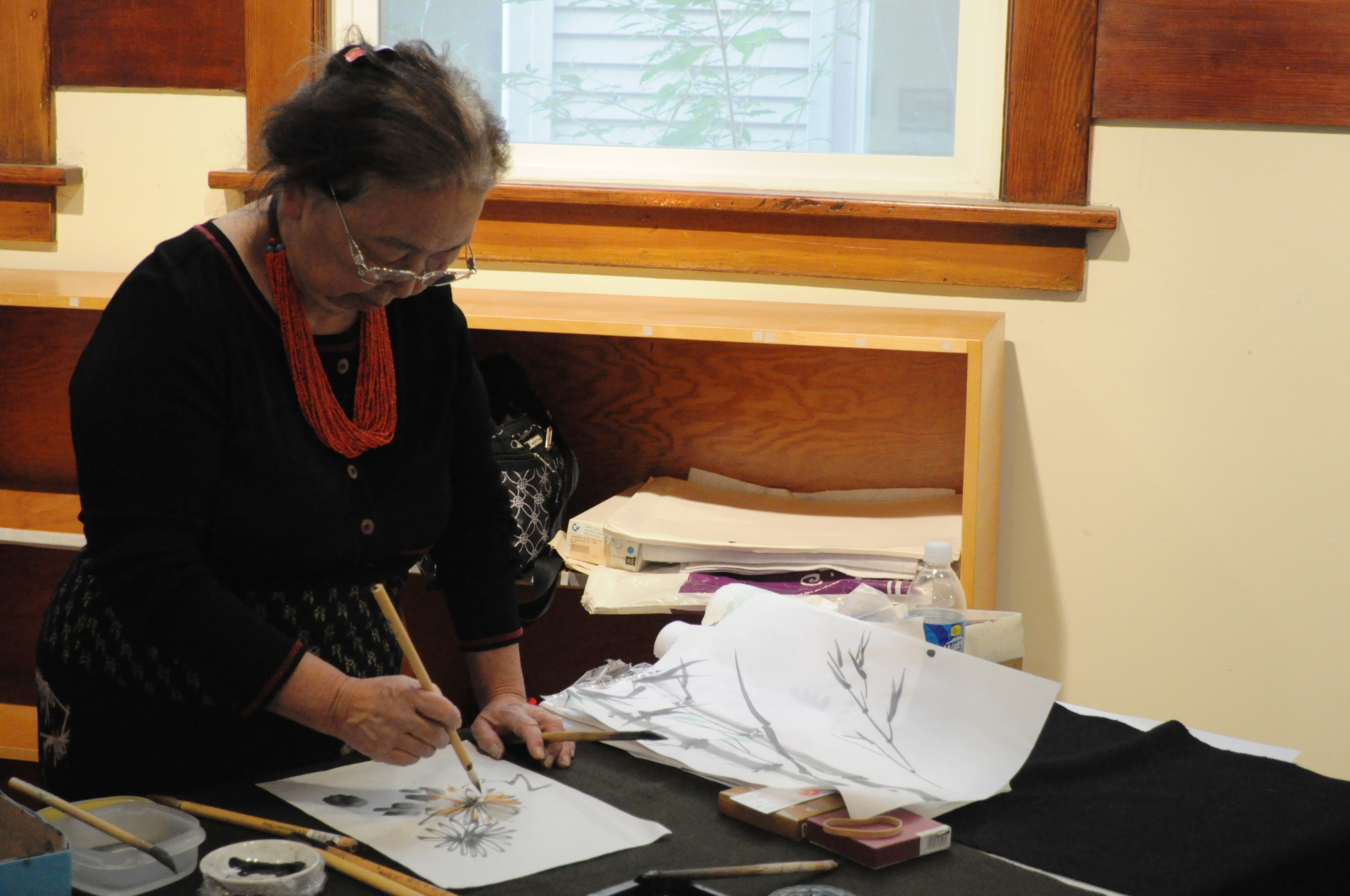 Midori Kono Thiel doing sumi-e painting at Bunka No Hi (annual Japanese Culture Day) at Seattle's Nihon Go Gakko / Japanese Cultural & Community Center.